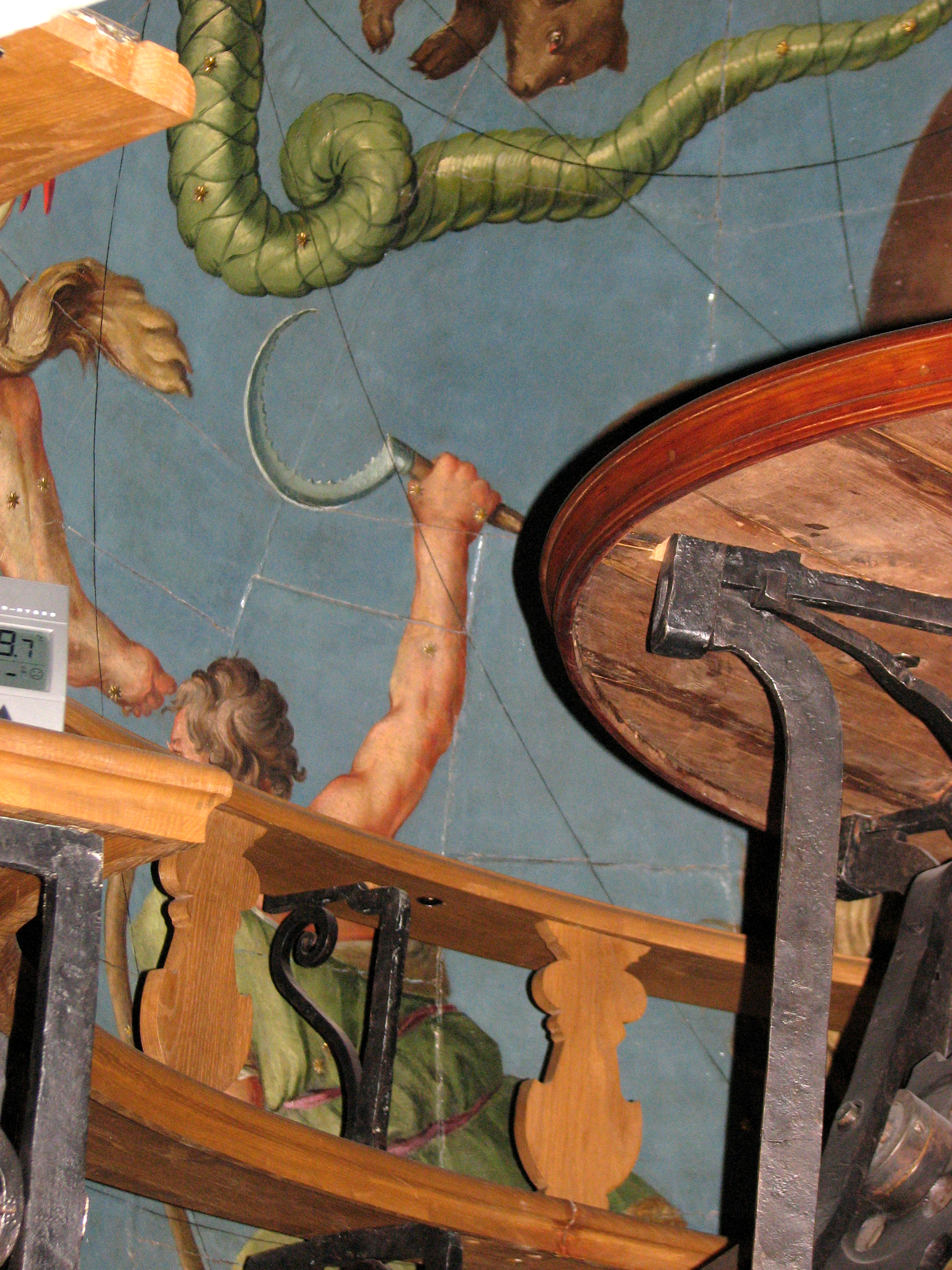 Saint Petersburg. The Kunstkamera. Globe of Gottorf